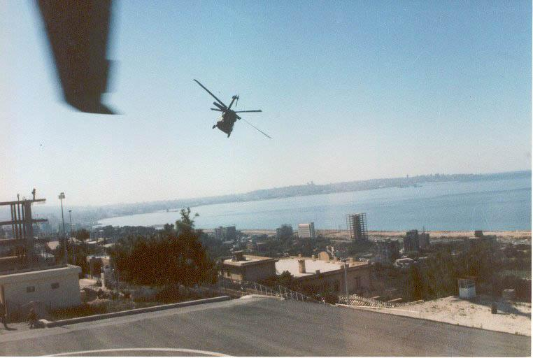 Being extracted from Beirut TOS LZ 1 in UH-60 flown by the 12th Aviation Brigade